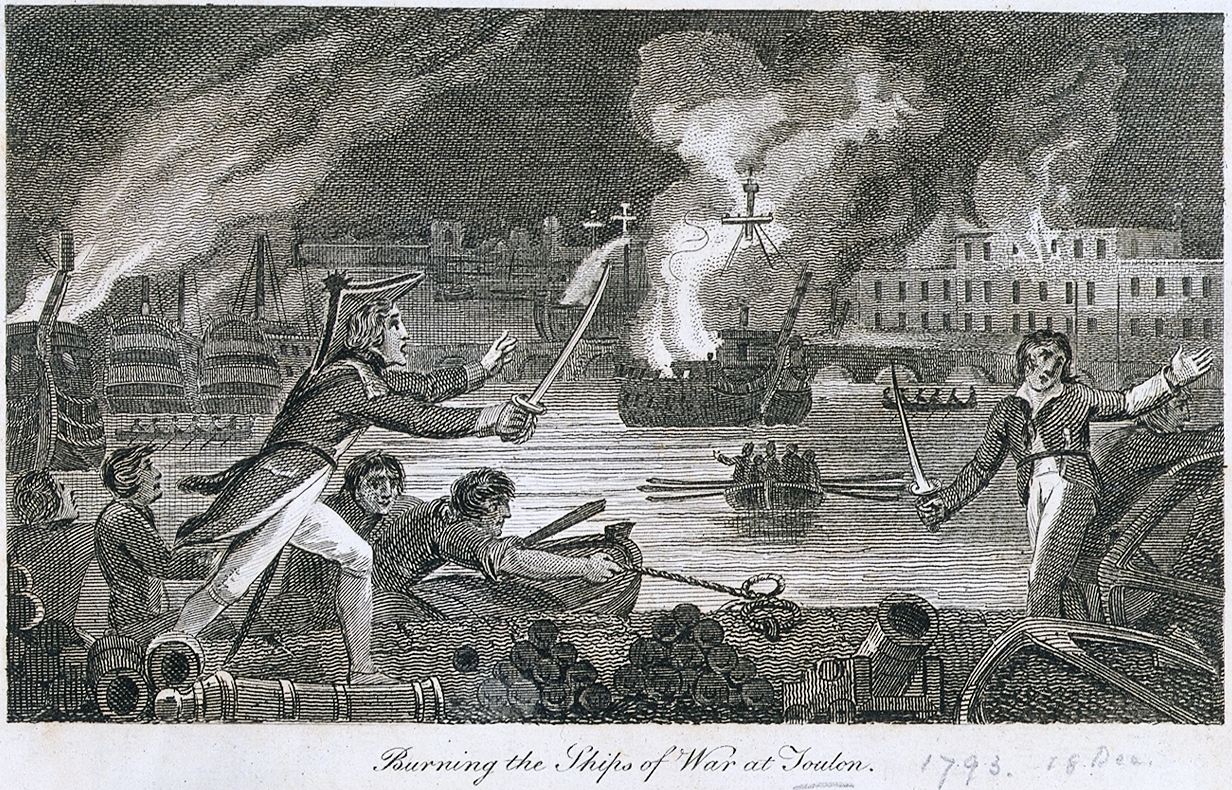 Burning the Ships of War at Toulon. 1793.